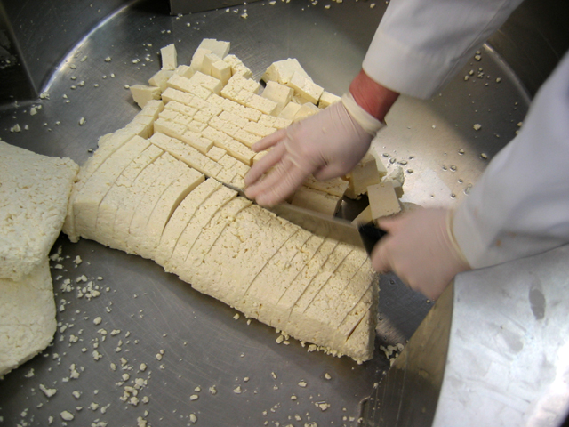 Milling of Cheddered curds